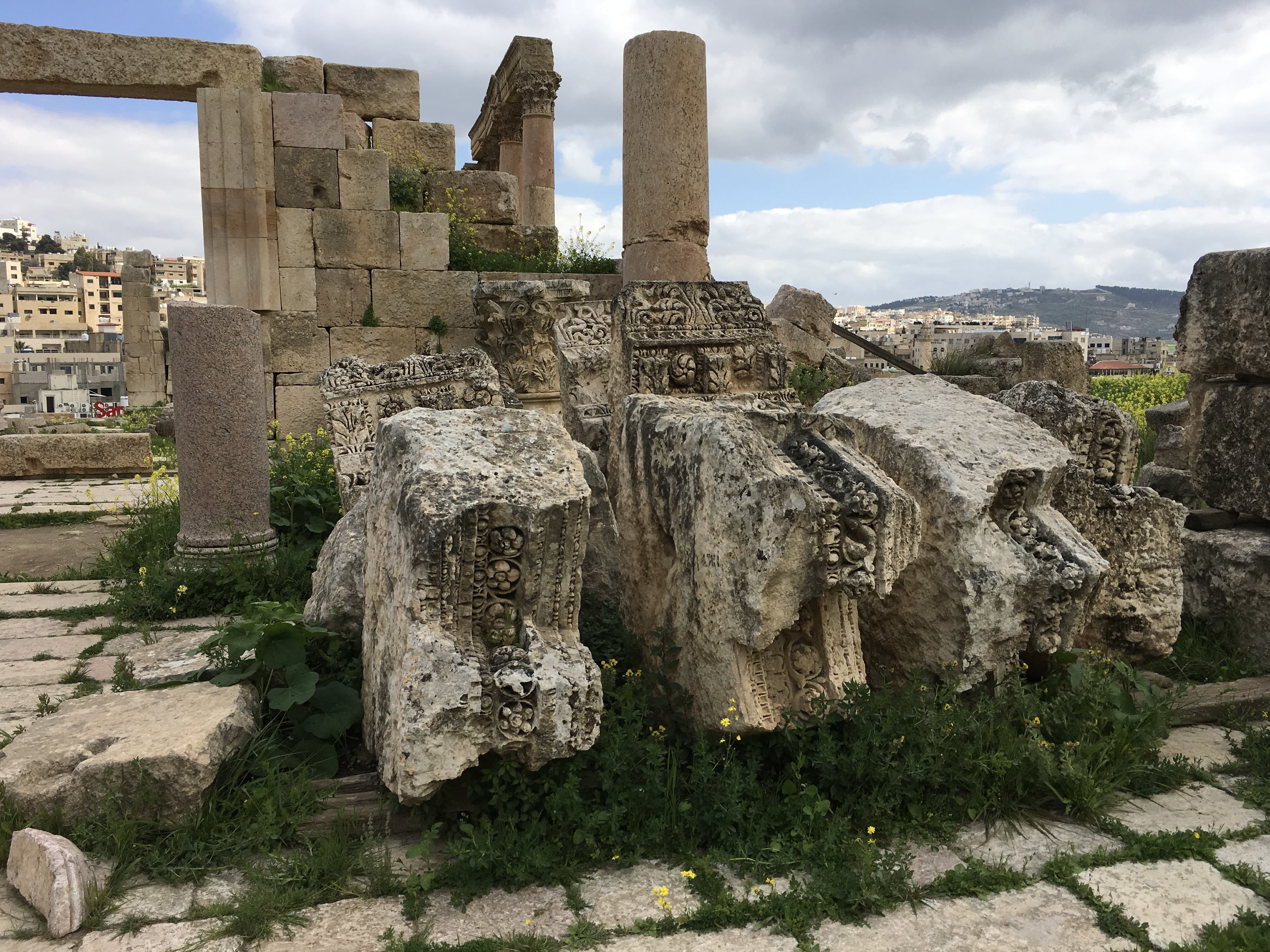 Propylaea Church and Propylaea portic parts